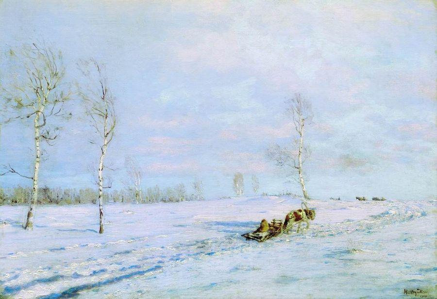 A sleigh-road. 1900. Oil on canvas. 46.2 x 65.8 cm. The State Tretyakov Gallery, Moscow